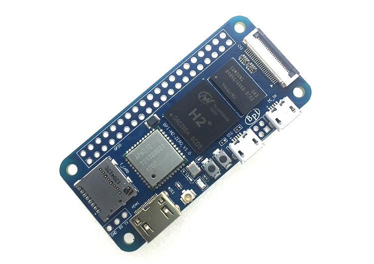 BPI-M2 zero